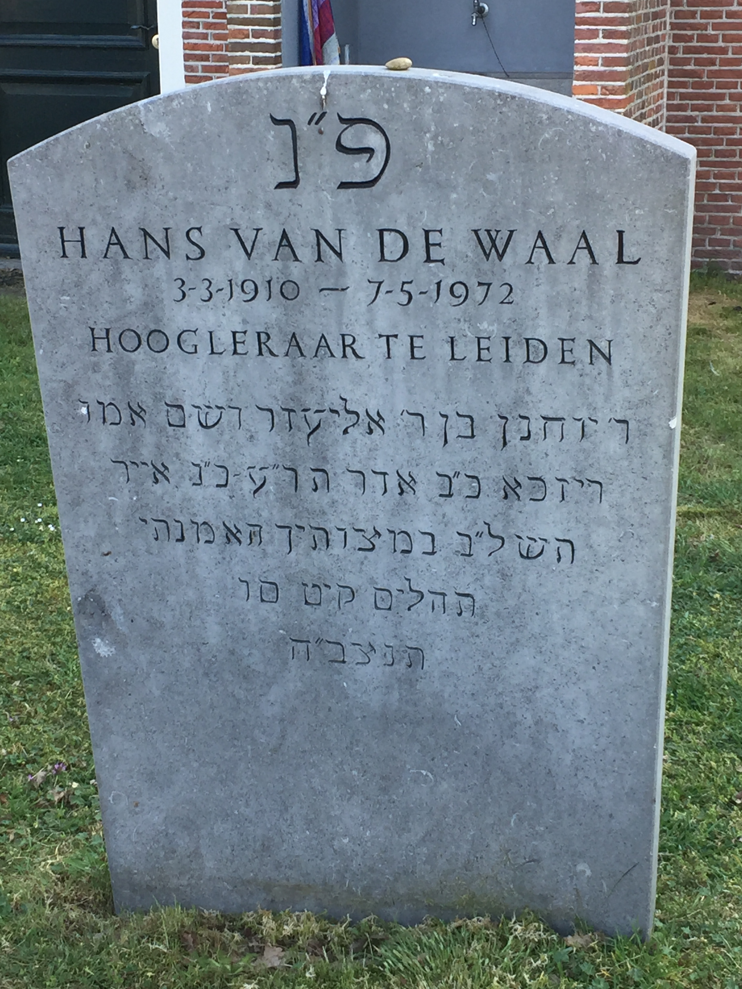 Jewish cemetery Katwijk